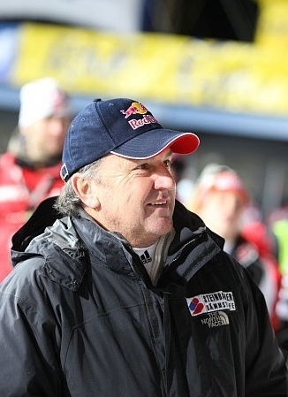 FIS Ski Jumping World Cup in Zakopane, 2008 Friday competition: Edi Federer